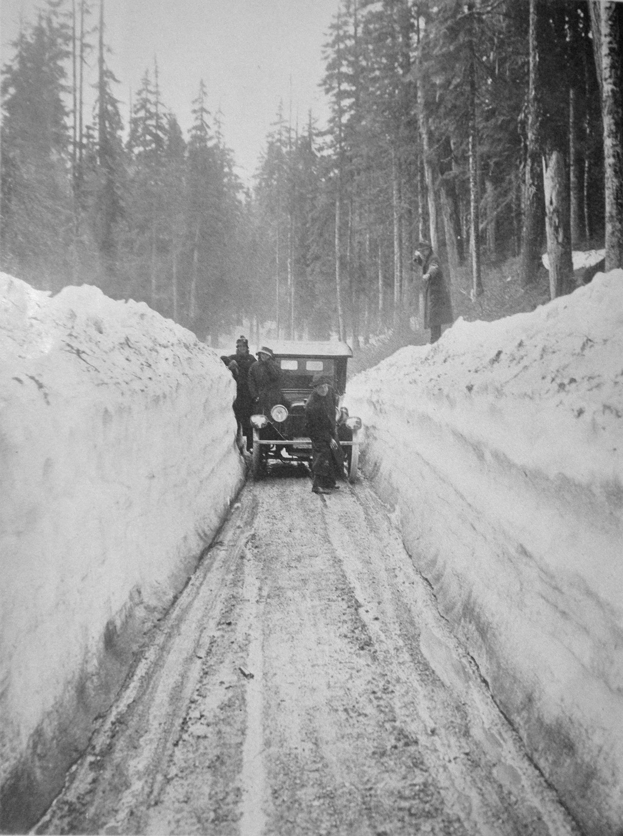 "Crossing the Cascades in June". The caption continued, "The Unprecedented Fall of Snow Last Winter Made Life Miserable for Tourists over the Sunset Highway Until Early Summer."